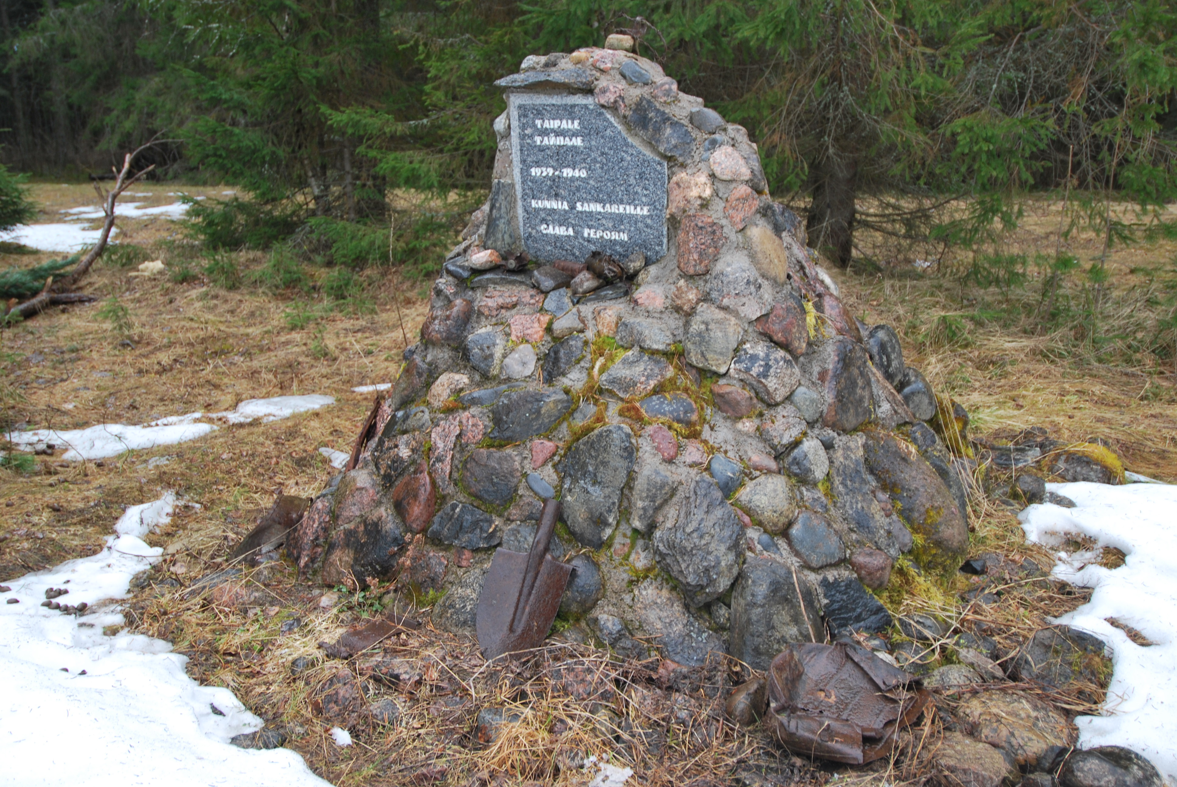 Monument in Solovyovo (Taipale)